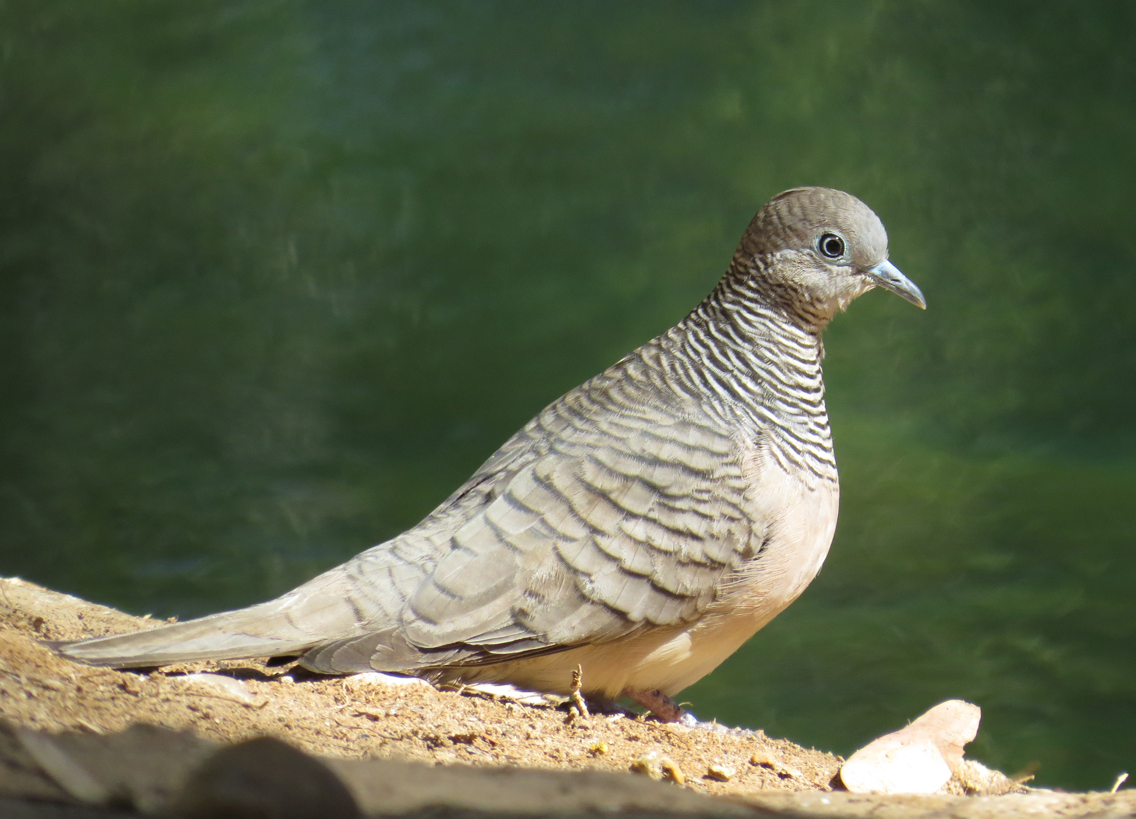 Peaceful Dove Geopelia placida on a bank of the Gregory River in north-west Queensland.